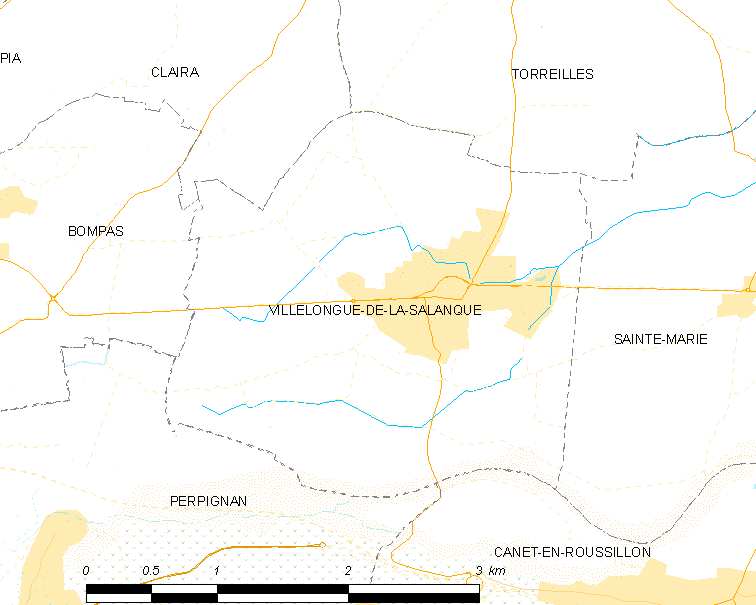 Map of French municipality